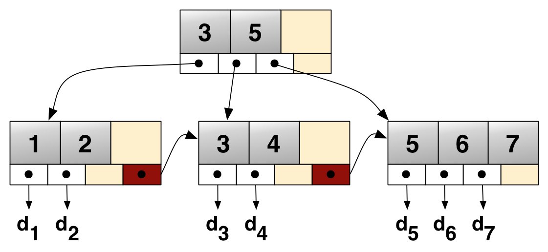 Example of a simple B+ Tree with 7 key entries pointing to data d1 to d7.